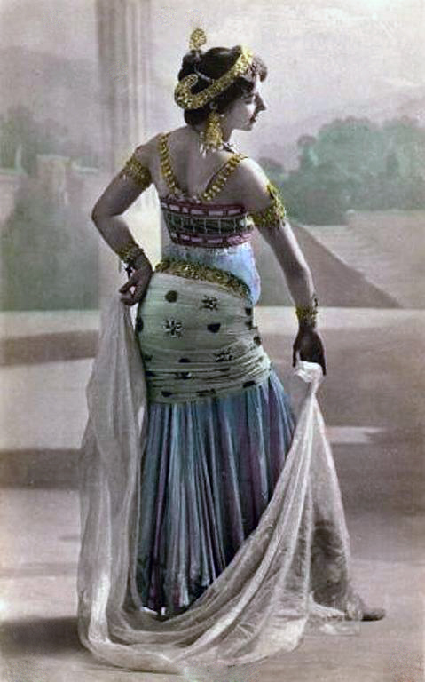 Postcard of Mata Hari in Paris